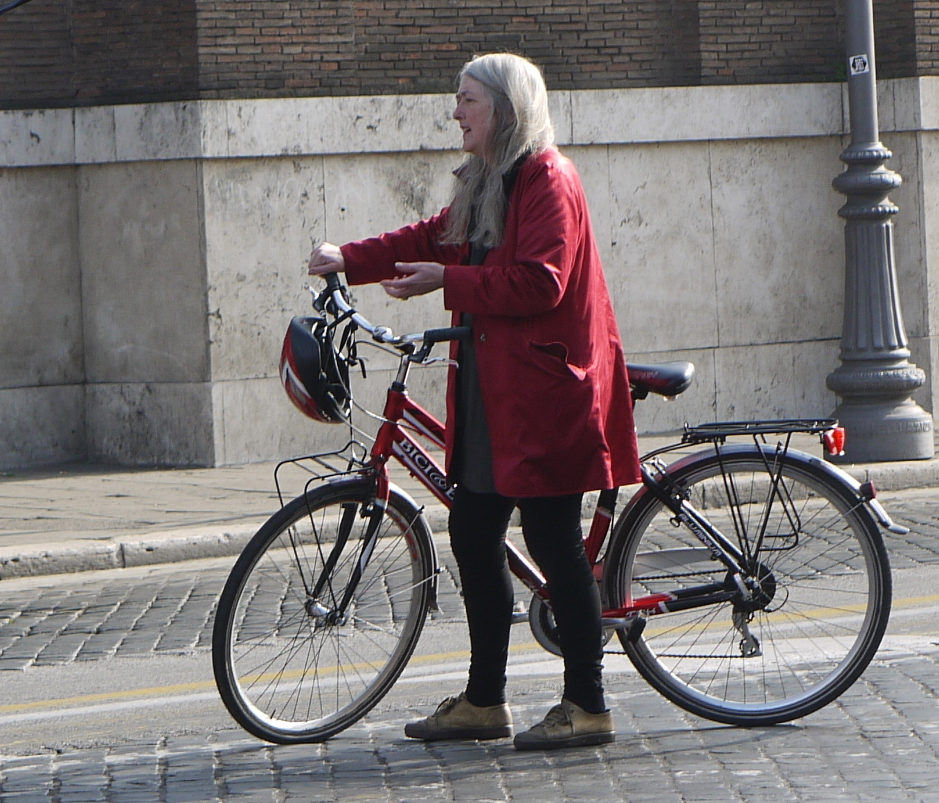 Mary Beard, Professor of Classics at the University of Cambridge, while filming in Rome, Italy.